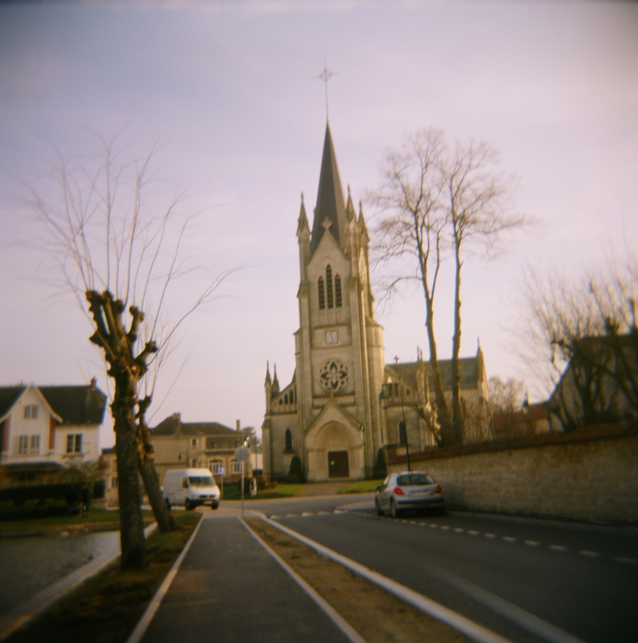 Gueux Church